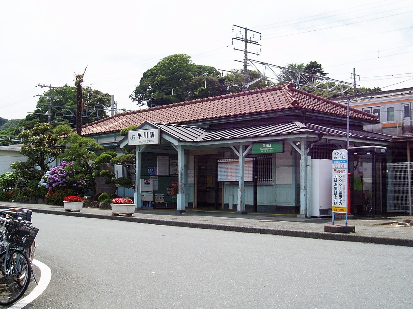 East Japan Railway Co. Hayakawa Sta.